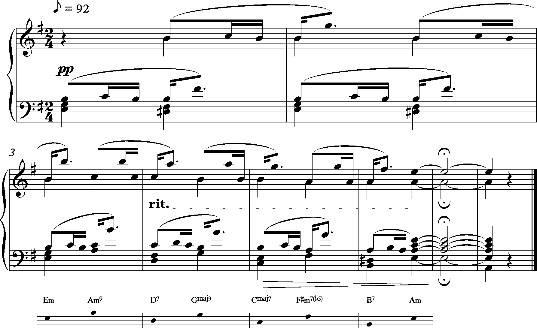 Schumann, Kind im Einschlummern.